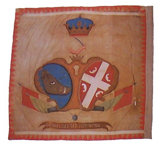 Flag of the regular army from the First Serbian Uprising. Inscription on the flag: С'б́гомъ, за вѣрѹ и́о̋течество!